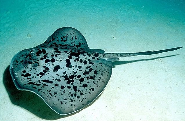 Blotched fantail ray (Taeniura meyeni) at the Makunudhoo Island Resort, Maldives. This work has been released into the public domain by its author, fishx6. This applies worldwide.In some countries this may not be legally possible; if so:fishx6 grants anyone the right to use this work for any purpose, without any conditions, unless such conditions are required by law.